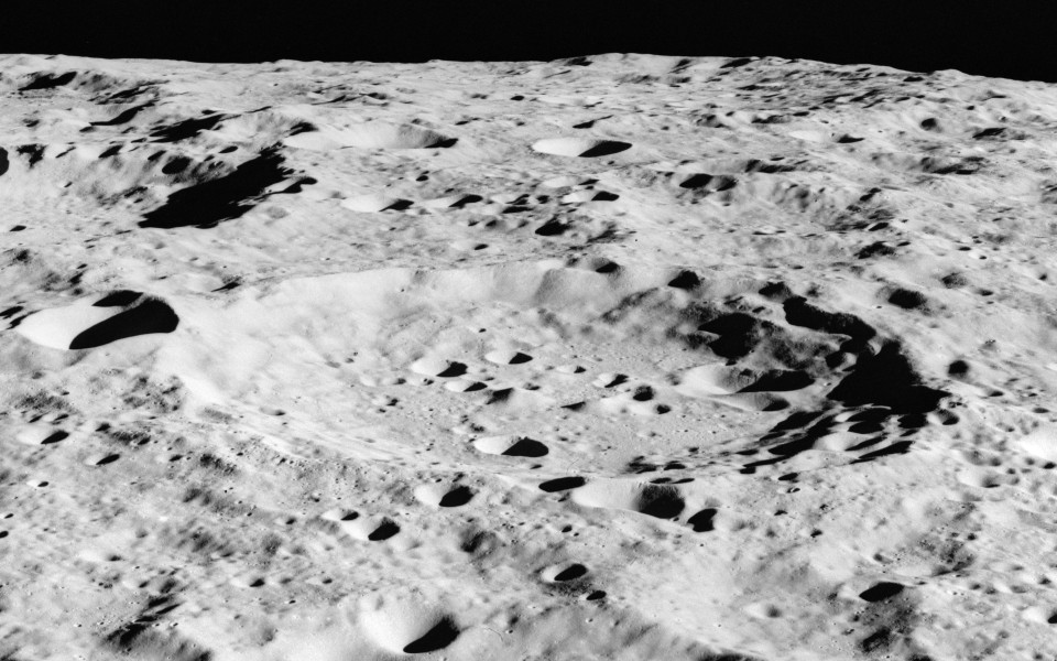 Oblique view of Schliemann crater, on the far side of the moon, facing south.